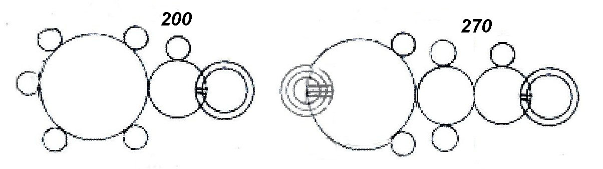 Figures extracted from Chemische Studien I (1861)